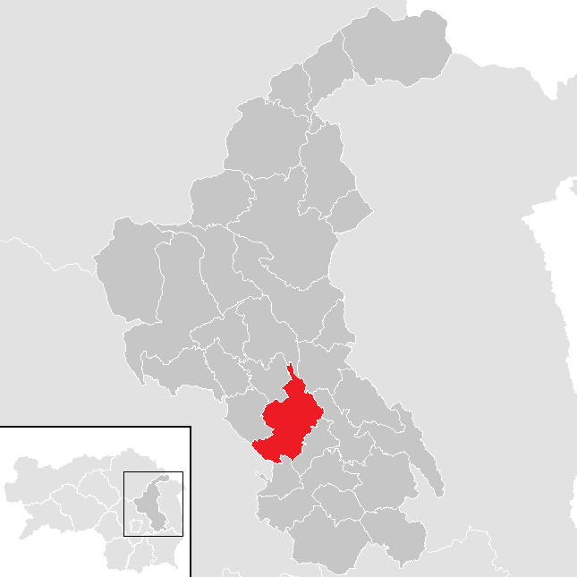 district Weiz